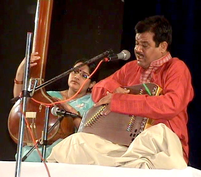 This photo has been taken from the artist to upload on wikipedia .photo is a concert of Indian Classical music program.